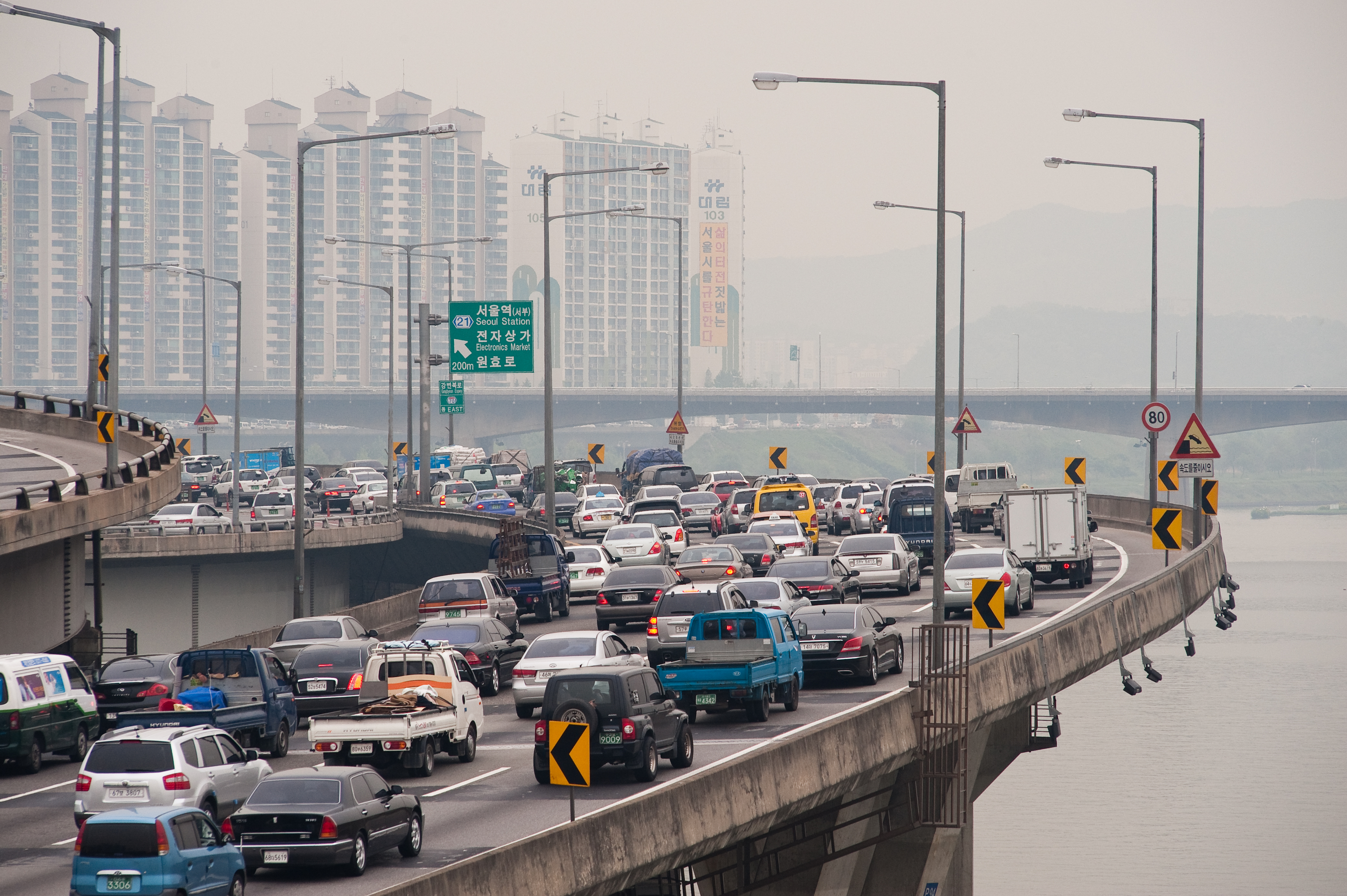 Gangbyeonbukro and Wonhyo-gyo (Bridge) during rush hour.